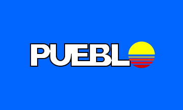 the flag of Pueblo